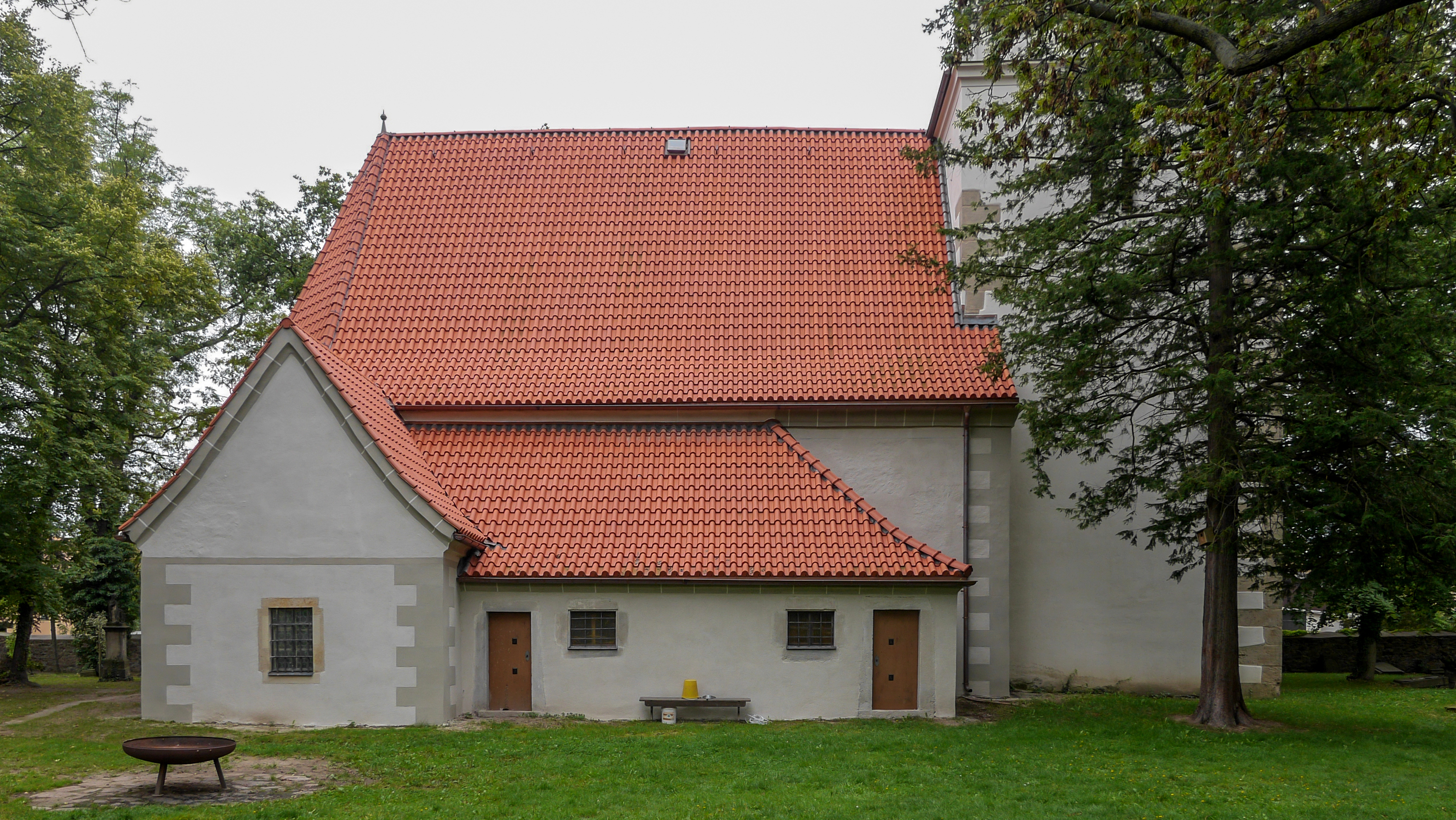 Coswig Ravensburger Platz Einzeldenkmale der Sachgesamtheit Alte Kirche Coswig: Kirche (einschließlich Ausstattung), dazu Kriegerdenkmal am Kirchhof, einige Grabsteine und Einfriedung VI